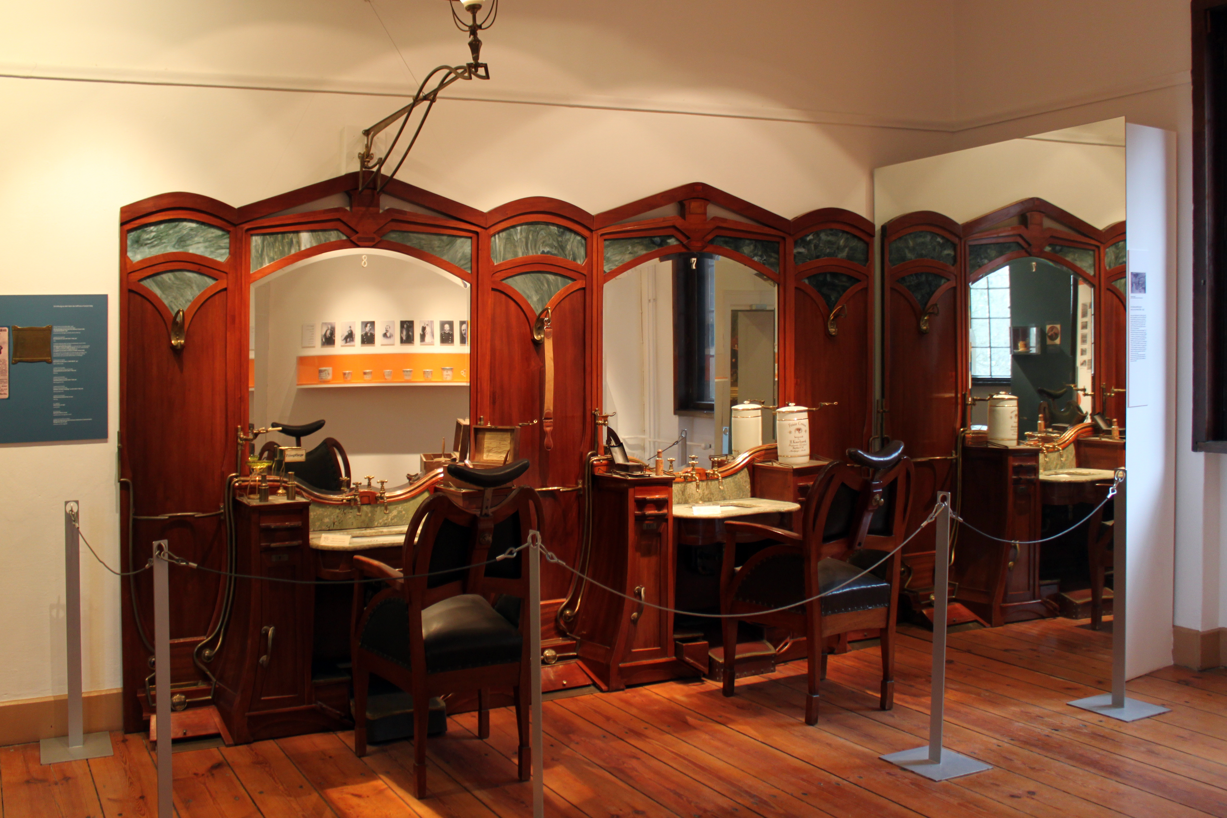 Hairdresser`s shop by Henry van de Velde (1863-1957), Märkisches Museum Berlin